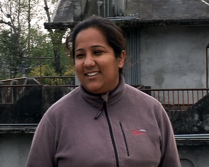 A nominee of CNN hero from Nepal.